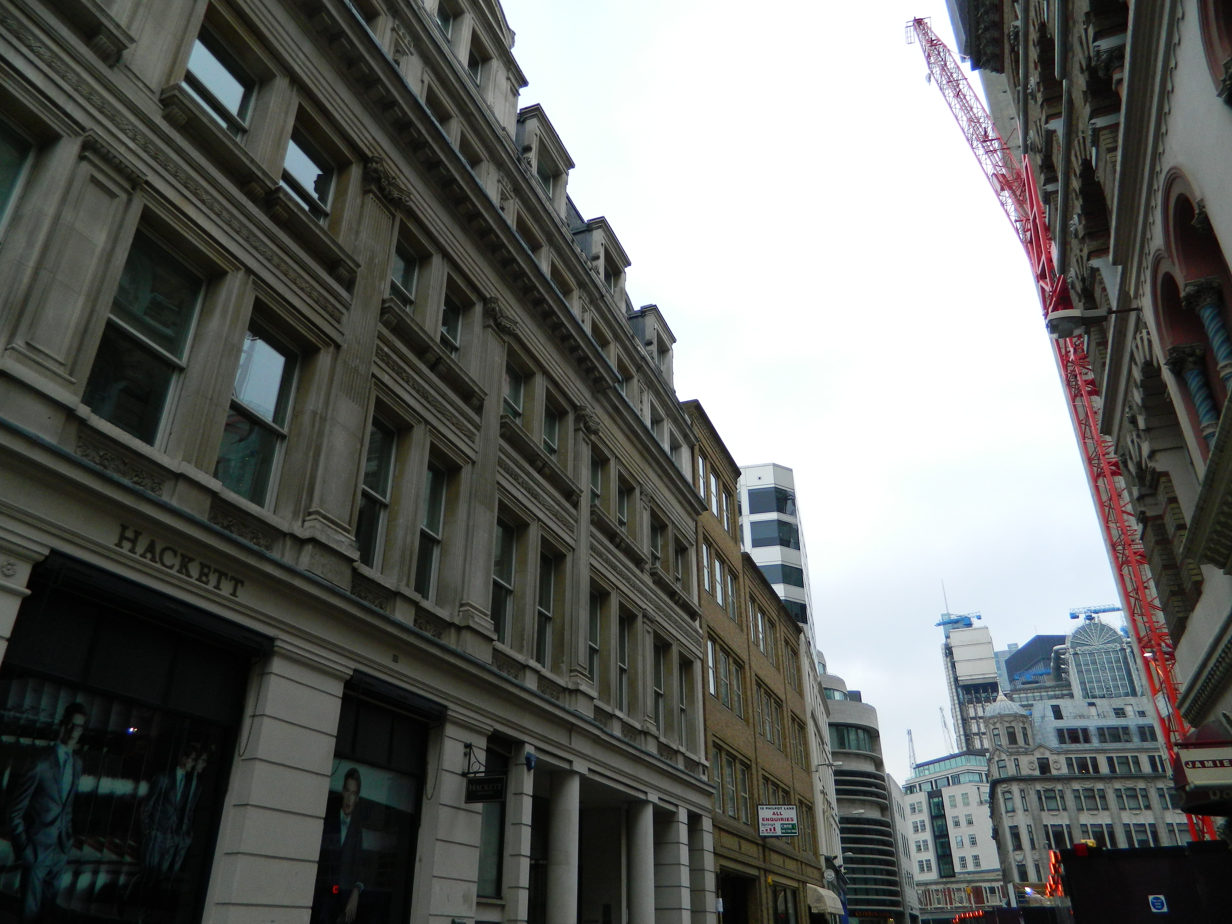 Looking north along Philpot Lane, London from the junction with Eastcheap. The side of Hackett men's clothing shop can be seen on the left.